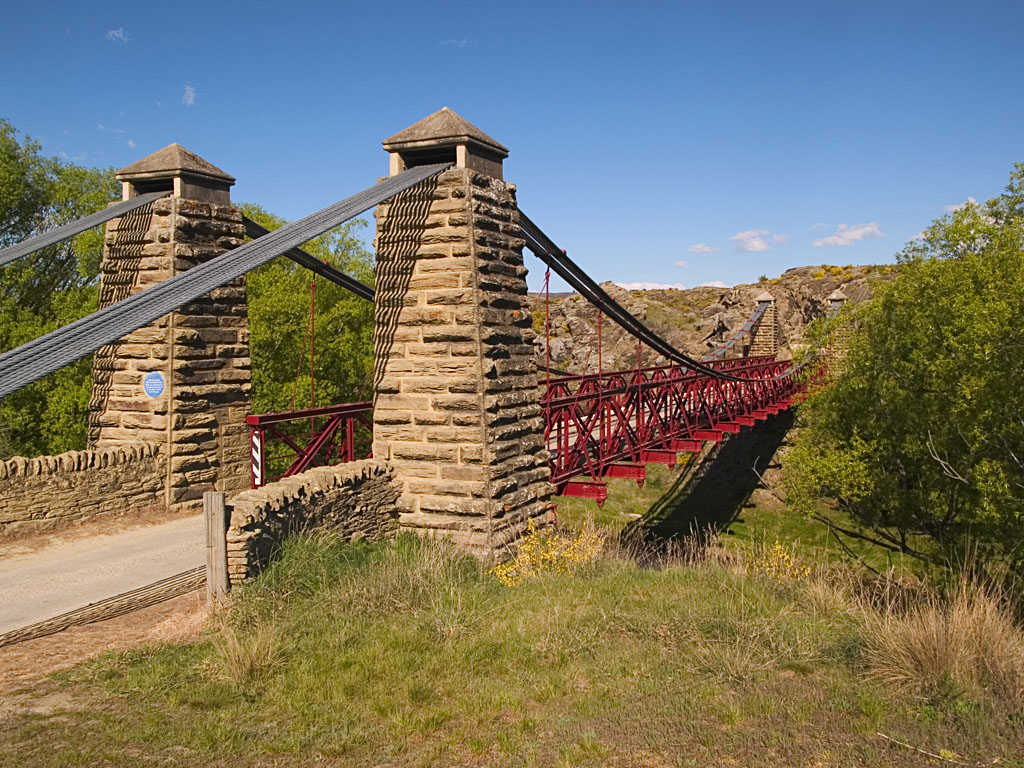 Daniel O’Connell Bridge, a suspension bridge over Manuherikia River, Ophir, Otago, New Zealand